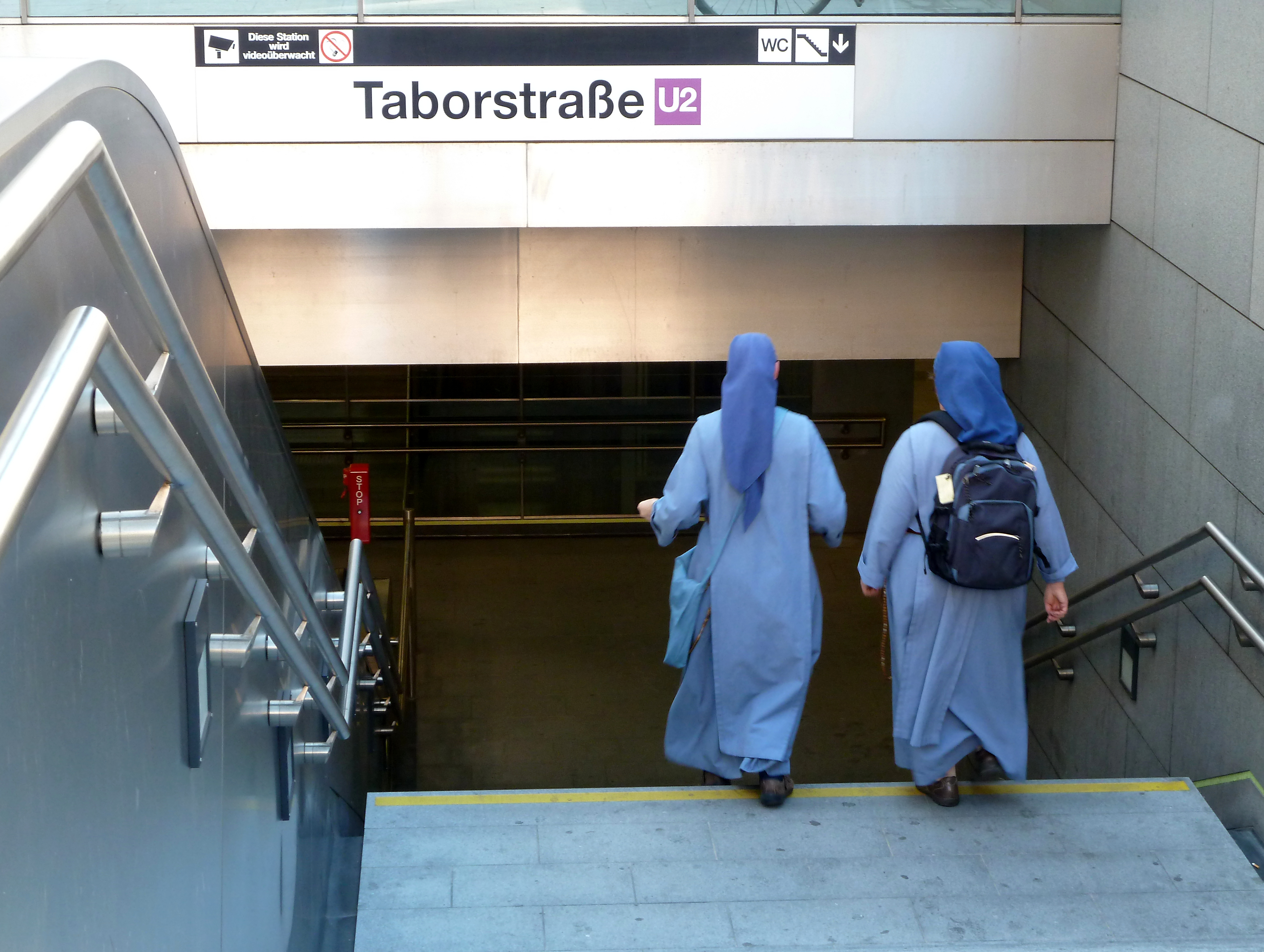 Two sisters of the Community of the Lamb entering Tabor street station in Vienna.